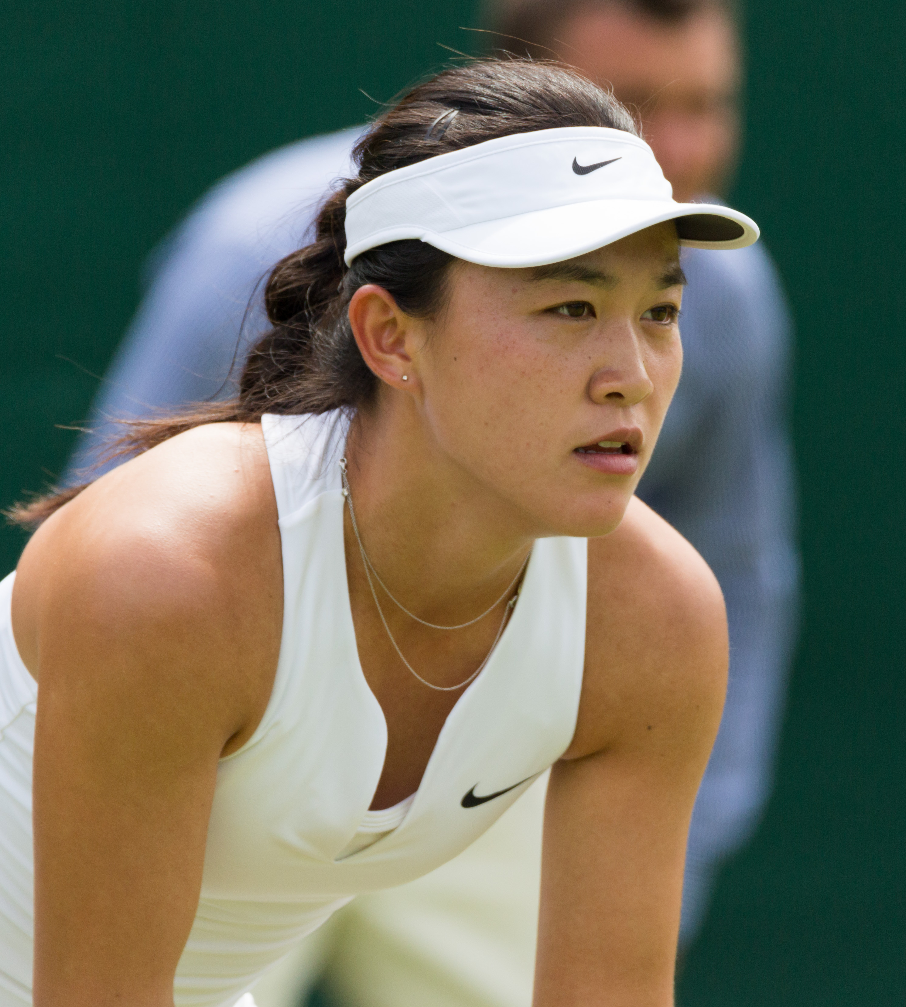 Zhu Lin competing in the first round of the 2015 Wimbledon Championships.